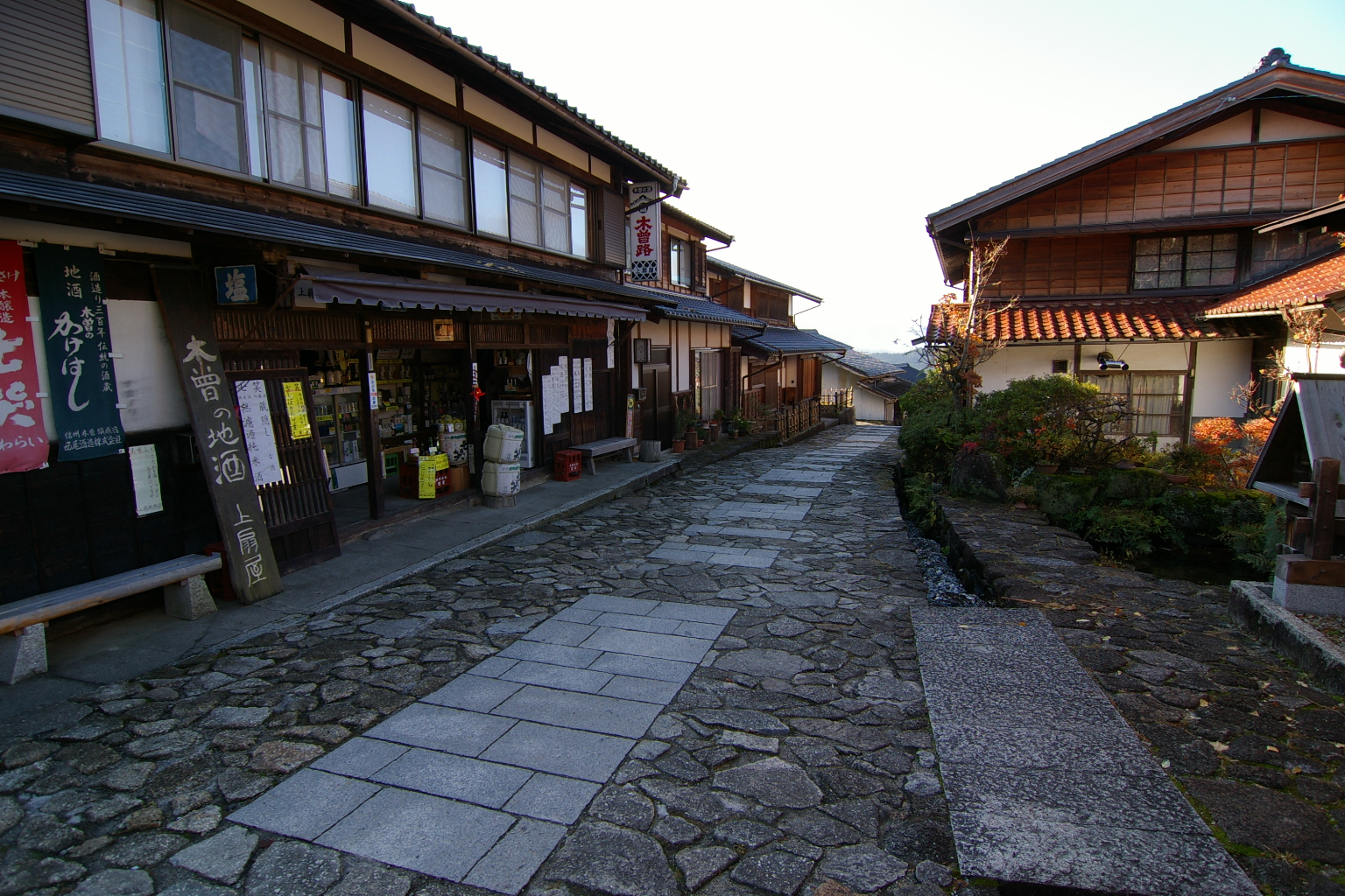 Magome Station (Nakatsugawa City, Gifu Pref., Japan)